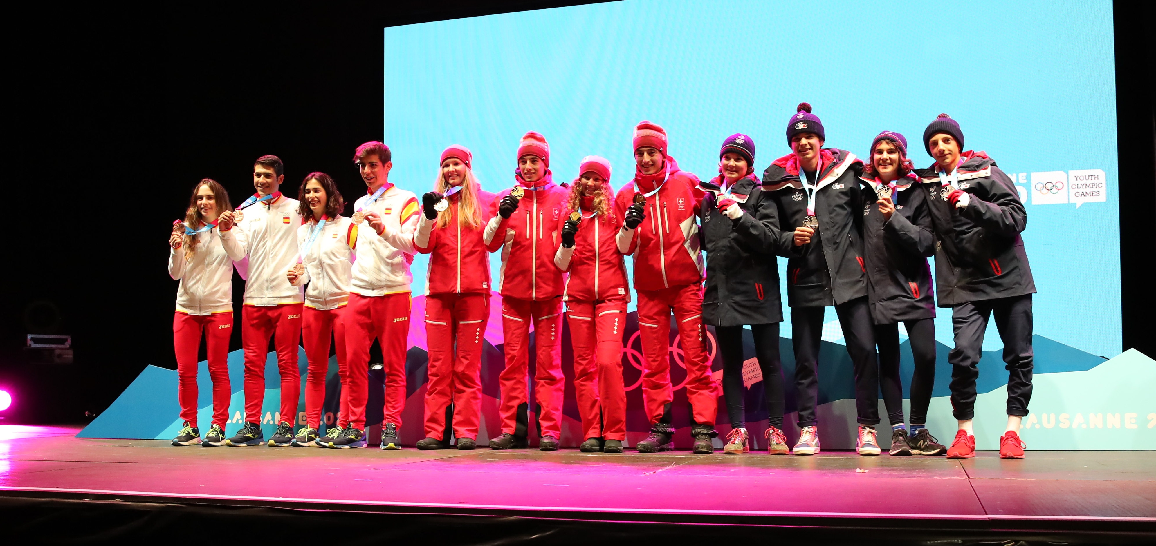 Medal Ceremony Day 5, 2020 Winter Youth Olympics in Lausanne